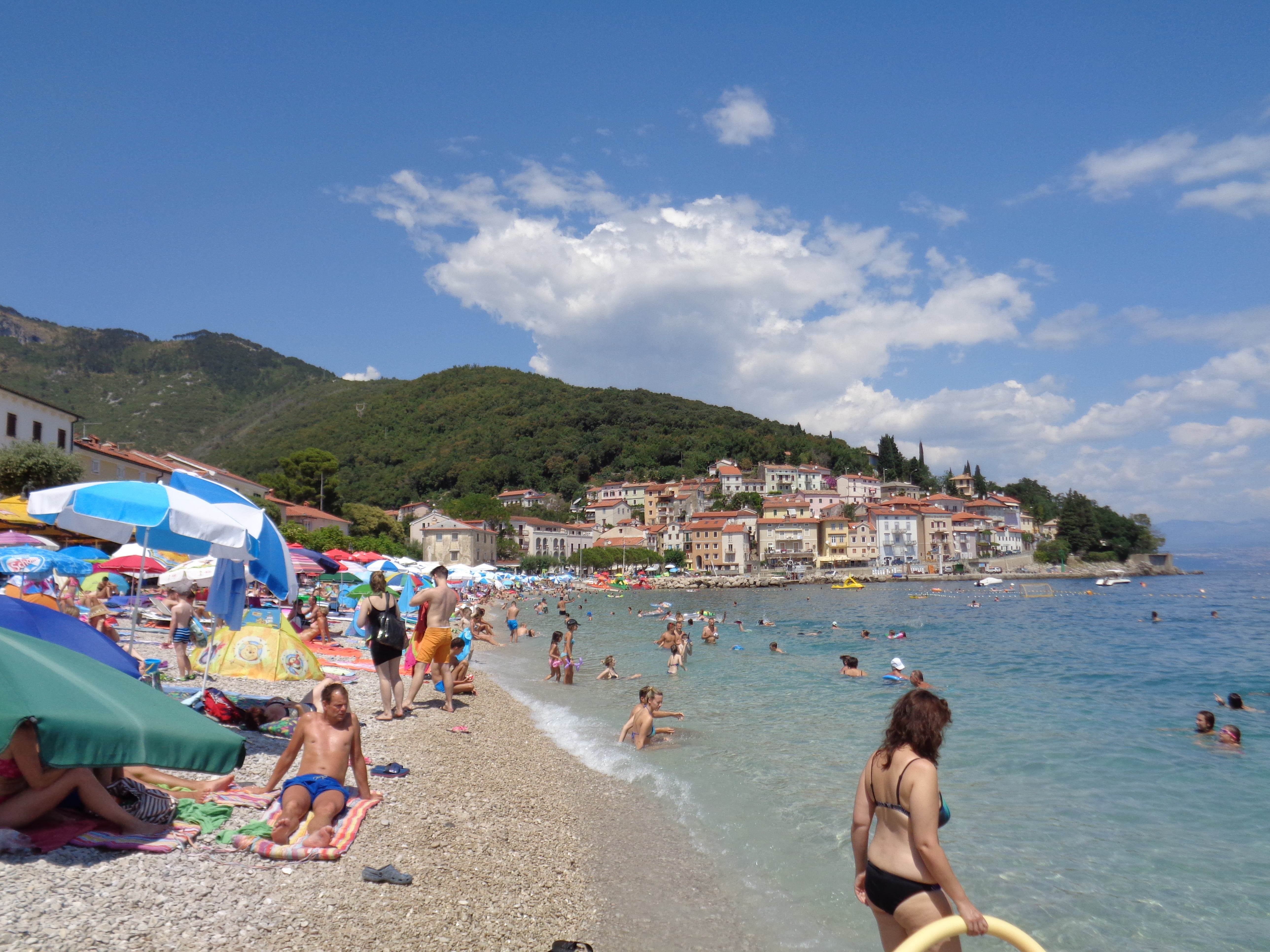 Mošćenička Draga municipality, Primorje-Gorski Kotar County, Croatia - beach